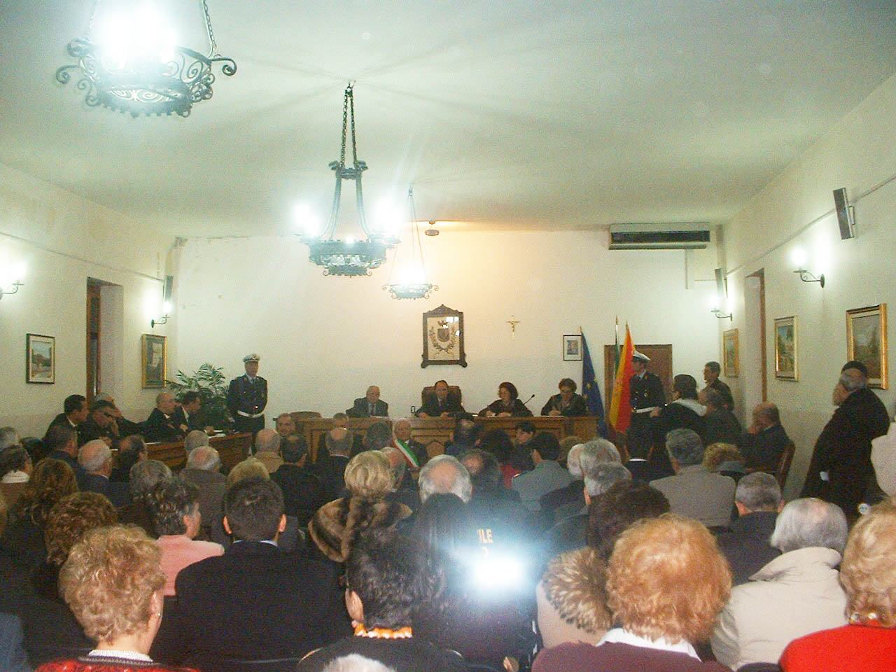 Solarino (SR), The 180th Anniversary of Town Independence (20 December 1827 - 2007)